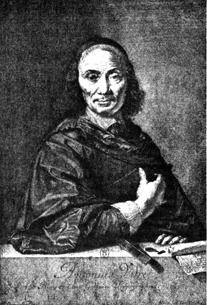 Portrait of Antoine Vitré (1595-1674), French Printer